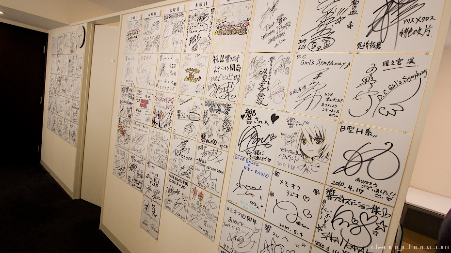 Square drawing papers (The Headquarter of Hibiki Inc.)